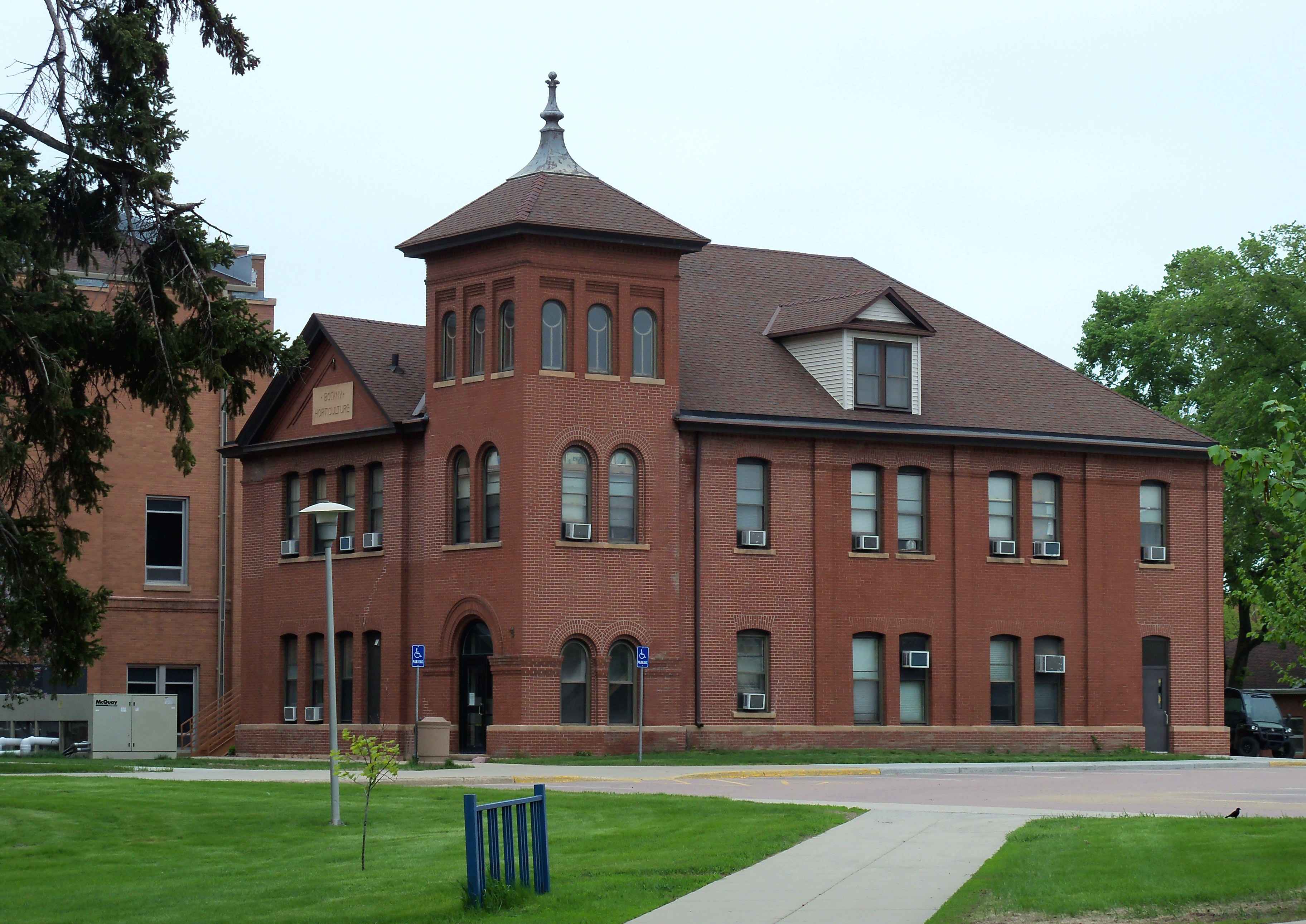 "Old Horticulture" building on the campus of South Dakota State University in Brookings, South Dakota, USA.